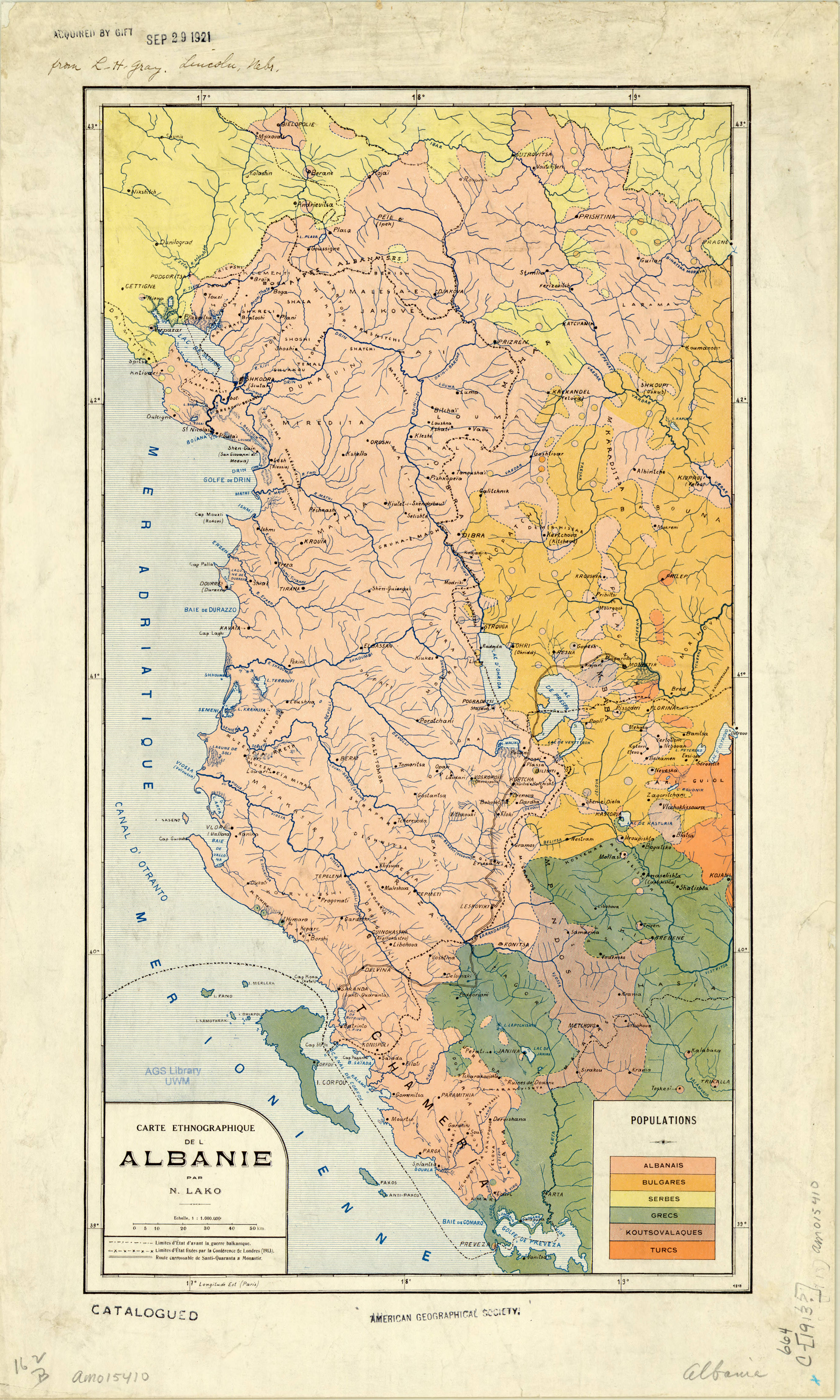 Ethnographic Map of Albania - 1913